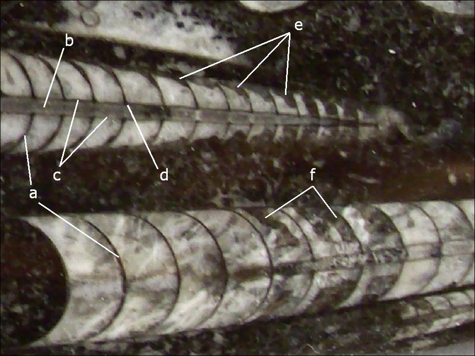 Polished section of Late Silurian-Devonian Orthoceras limestone (Erfoud, Morocco). Internal characters of orthoceratid nautiloids; a)septa; b)siphuncle; c) connecting rings d)septal necks (short & othocoanitic); e)endocameral deposits; f)sediment infillings. The camerae of the shells are mostly infilled by spathic calcite. Dimensions: 4x3 cm.